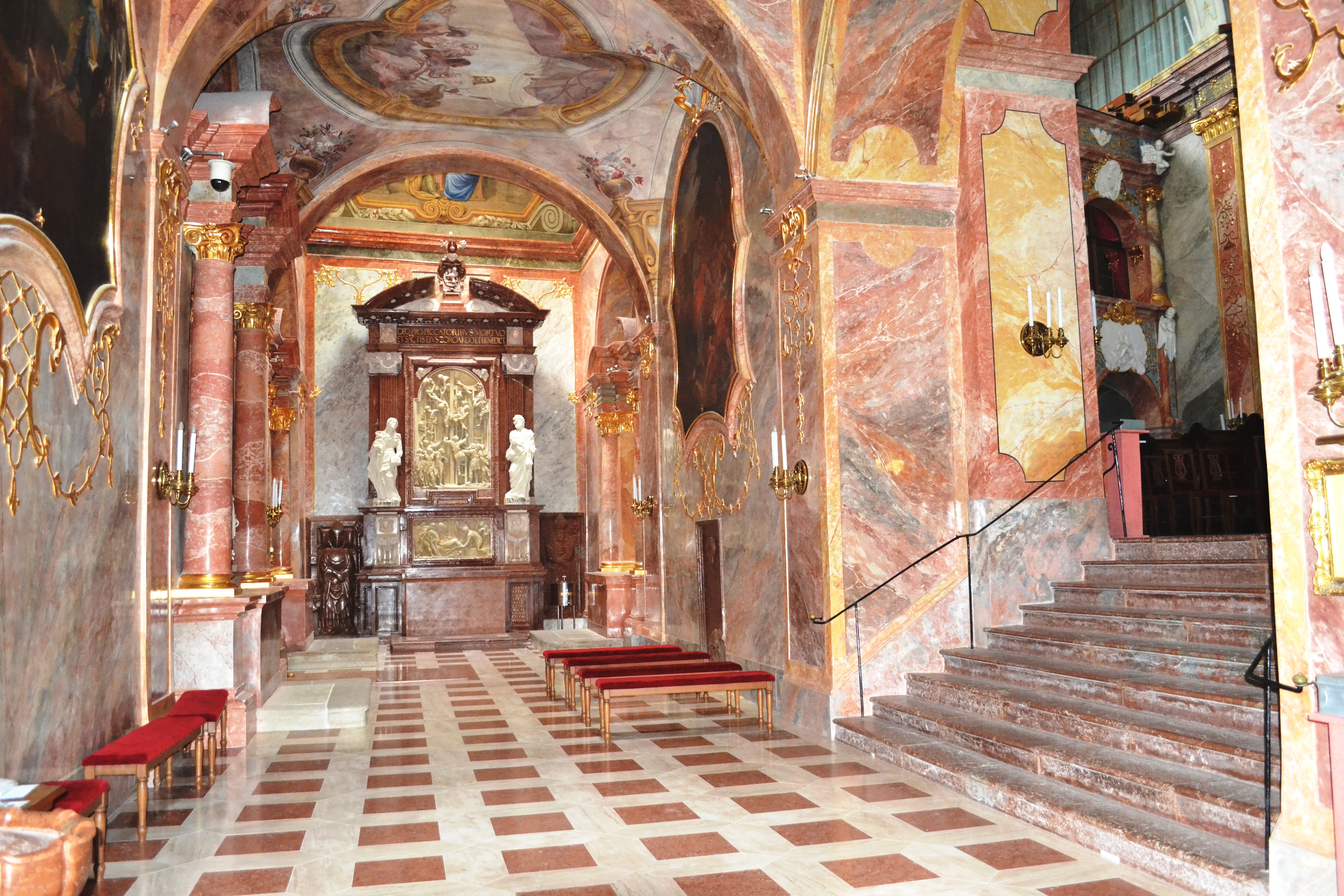 Cathedral Basilica of St Emmeram, interiorSlovenčina: Katedrála sv. Emeráma, interiér